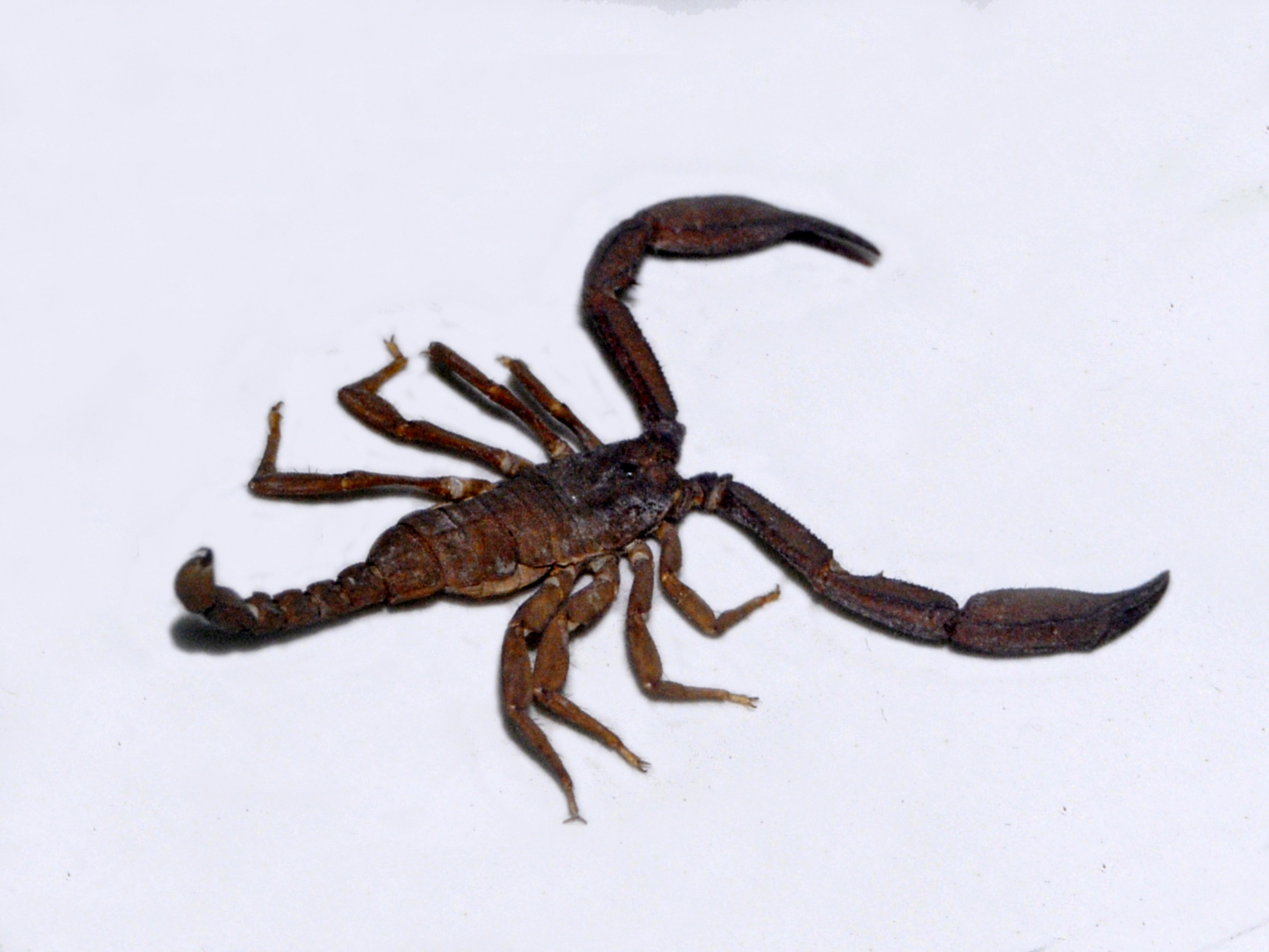 Museum specimen of Euscorpiops montanus, On display at Museo Civico di Storia Naturale di Milano